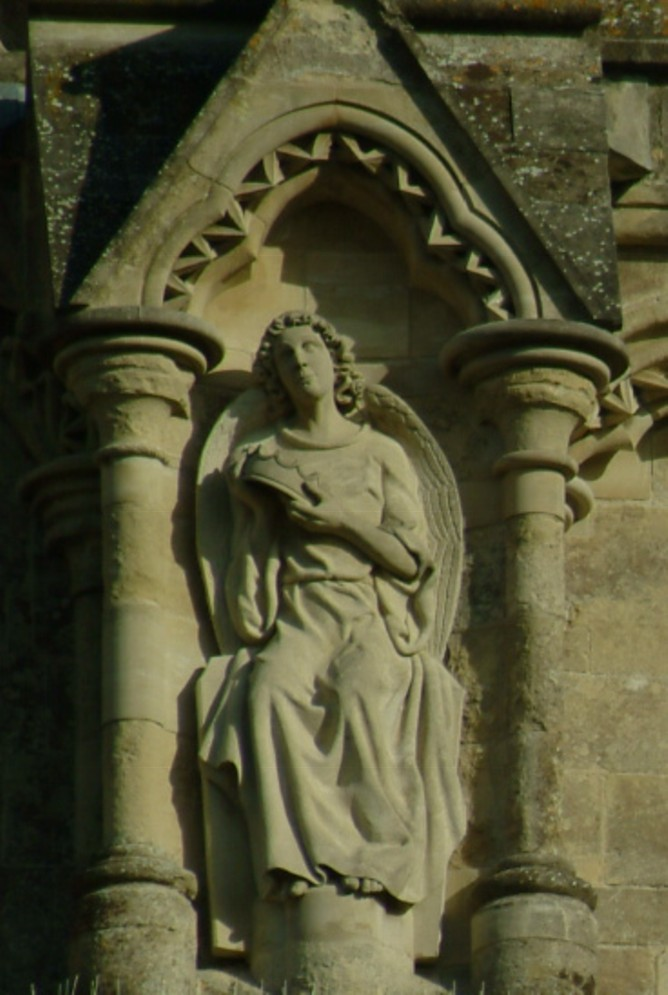 Statue of an angel in niche No. 26 on the Great West Front of Salisbury Cathedral.